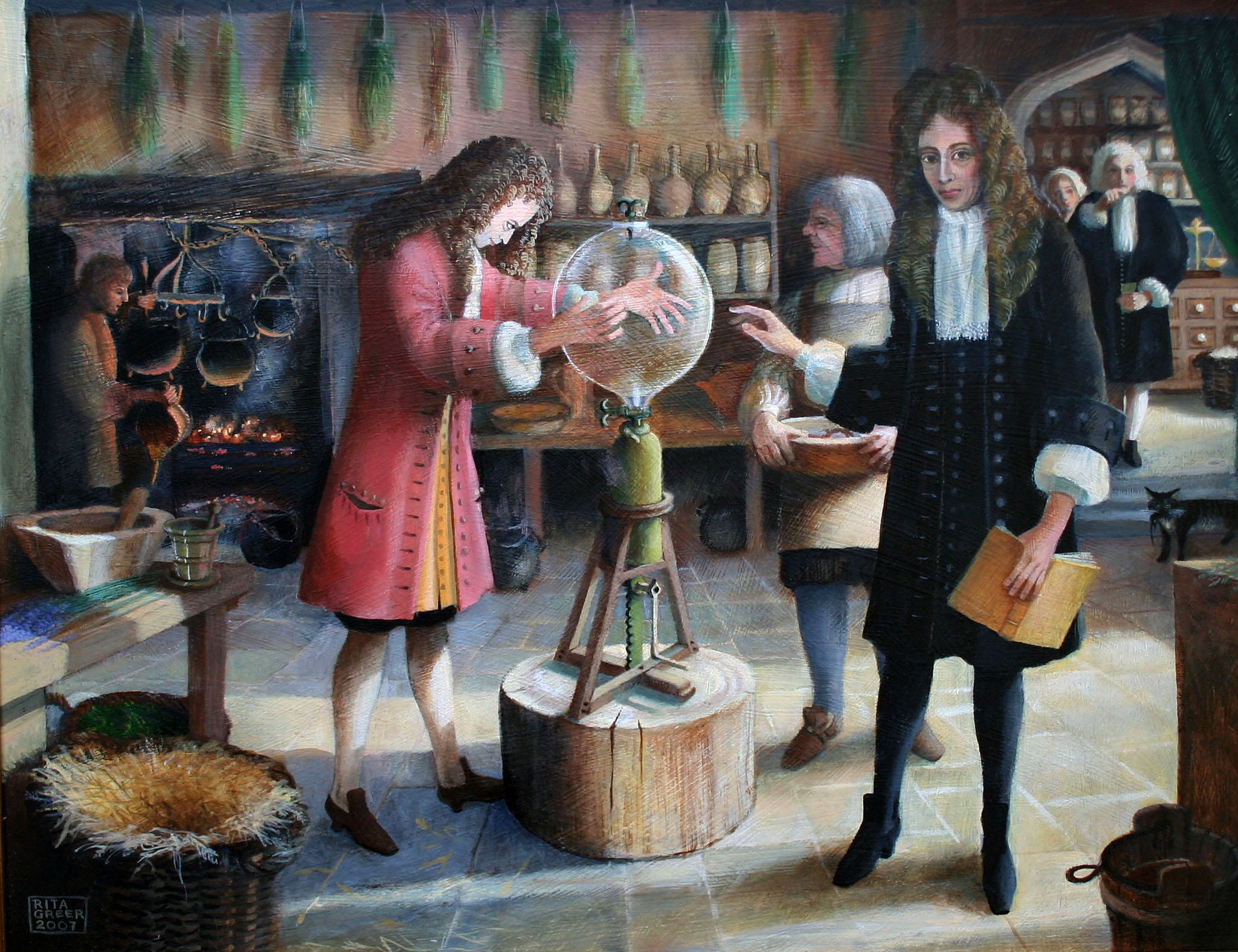 After Robert Hooke had finished his education and secured his doctorate at Christ Church, Oxford, he assisted Robert Boyle in his work. Robert Hooke is setting up an experiment using the air pump he designed and made. It is taking place at the rear of an apothecary’s shop in Oxford owned by Dr. Cross. Hooke is fitting on the glass globe while Boyle supervises. The artist has used Hooke's own working drawing of the air pump for accuracy.